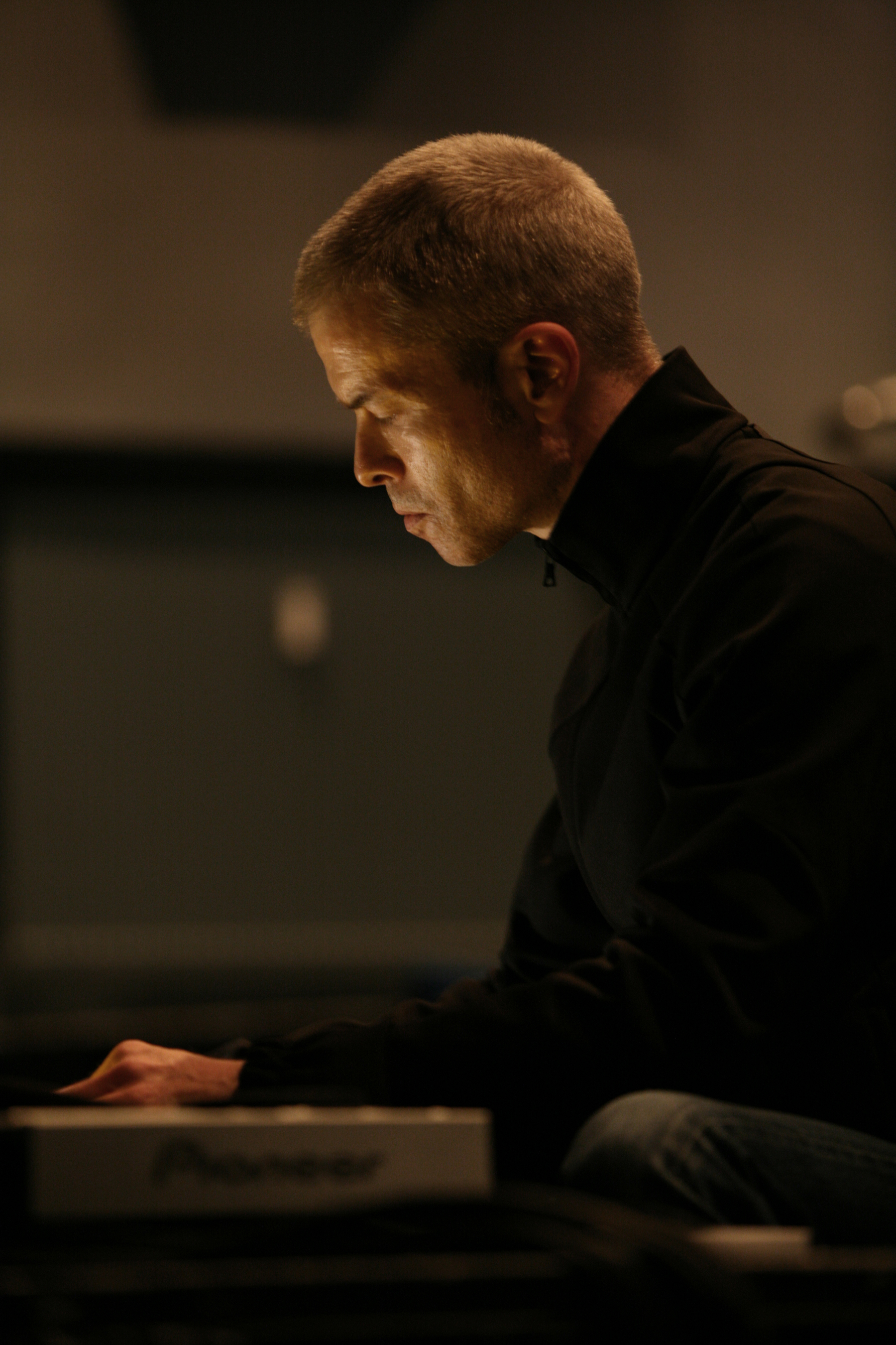 Mark Polscher